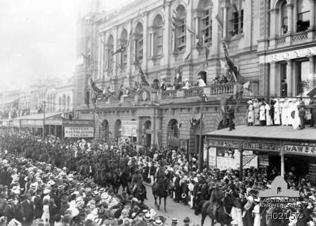 BRISBANE, QLD. C. 1919. THE 2ND LIGHT HORSE MARCHING ALONG QUEEN STREET.